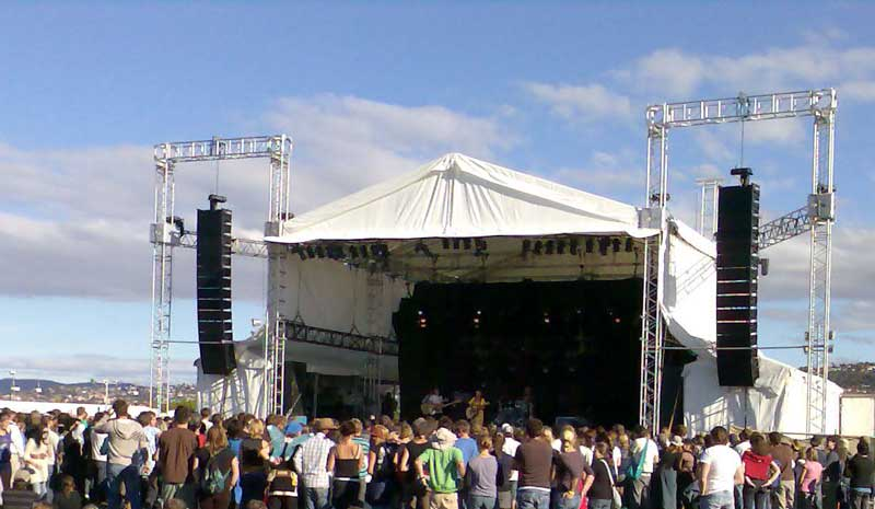 Angus and Julia Stone perform on the main stage at the Southern Roots Music Festival, Hobart, Tasmania, Australia